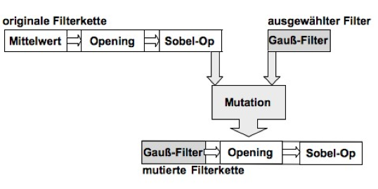 Mutation bei der evolutionären Bildverarbeitung